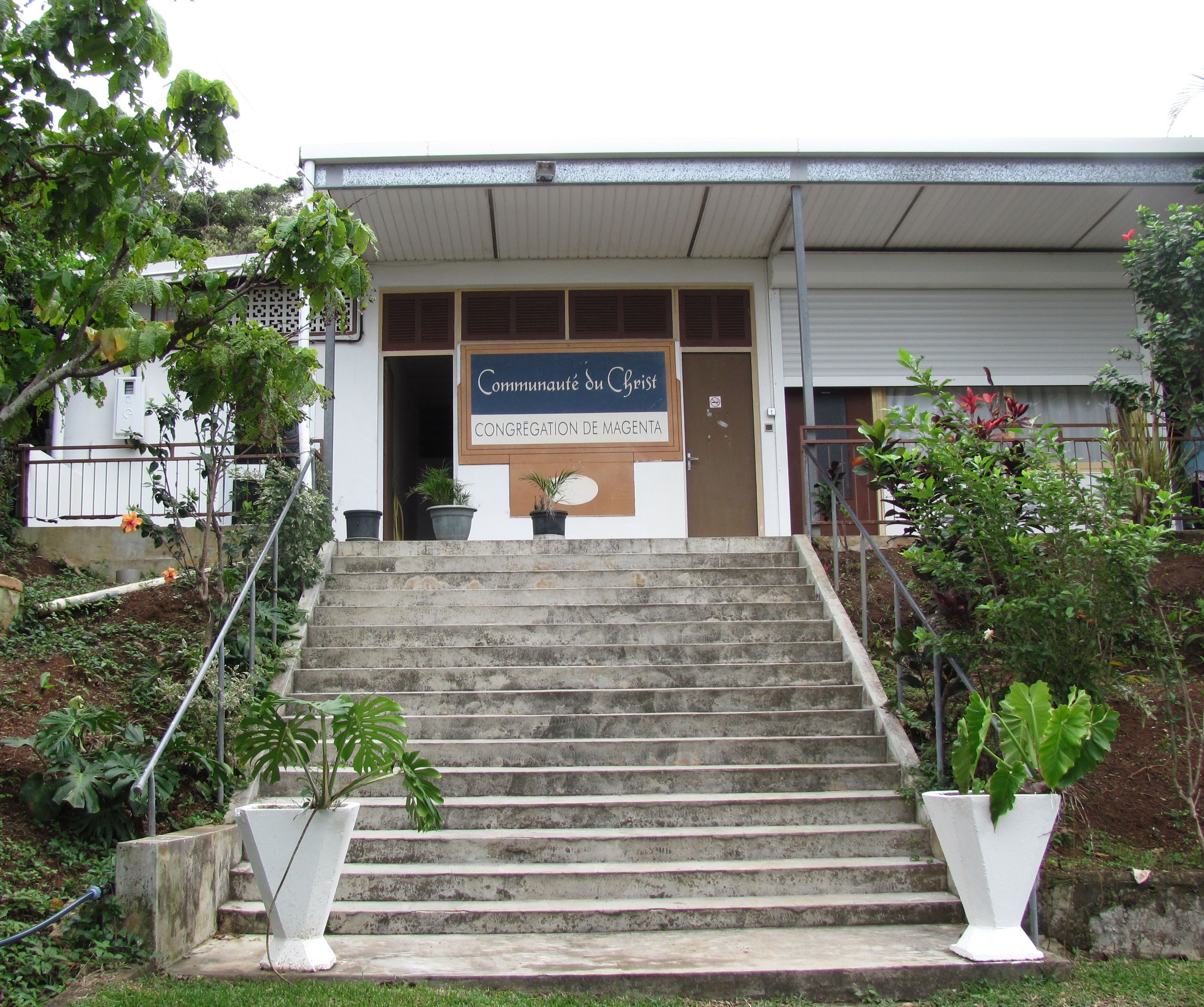 Community of Christ, Nouméa, New Caledonia